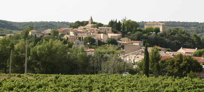 the town of Roaix in Vaucluse, France